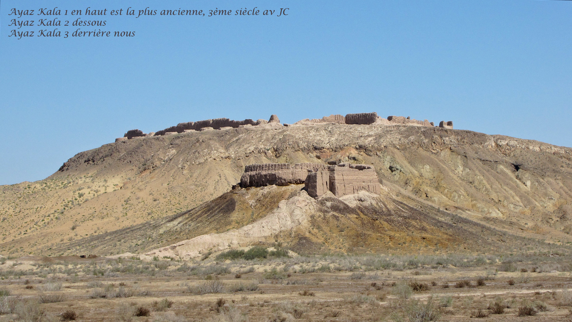 Fortresses of Ayaz Kala 1 and 2 in the republic of Karakalpakstan and the Kyzyl Kum desert in Uzbekistan. Ayaz Kala 1 at the top is the oldest (3rd century B. C.). Ayaz Kala 2 is beneath.